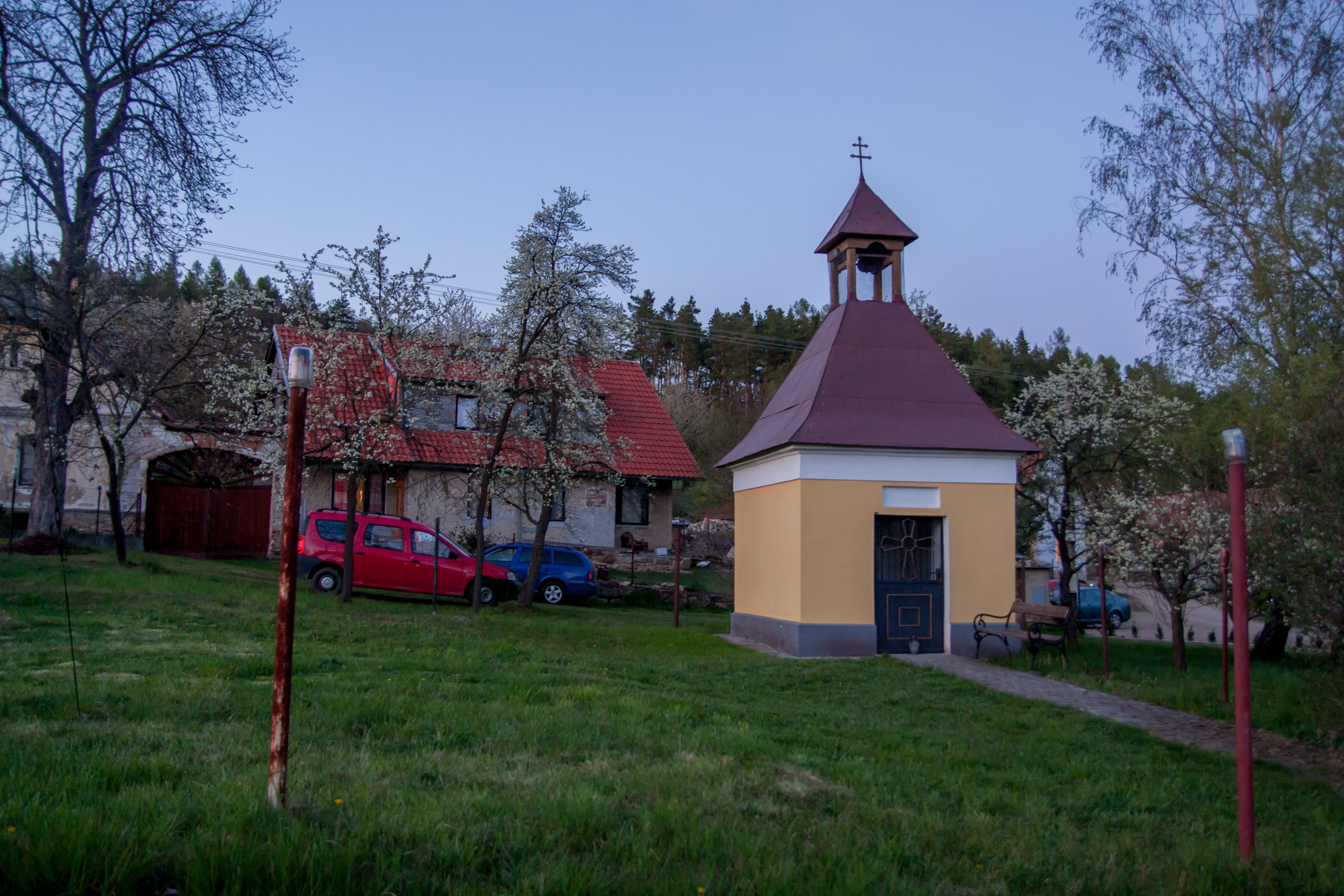 Chapel in municipality Laby, Benešov District, Central Bohemian Region, Czechia